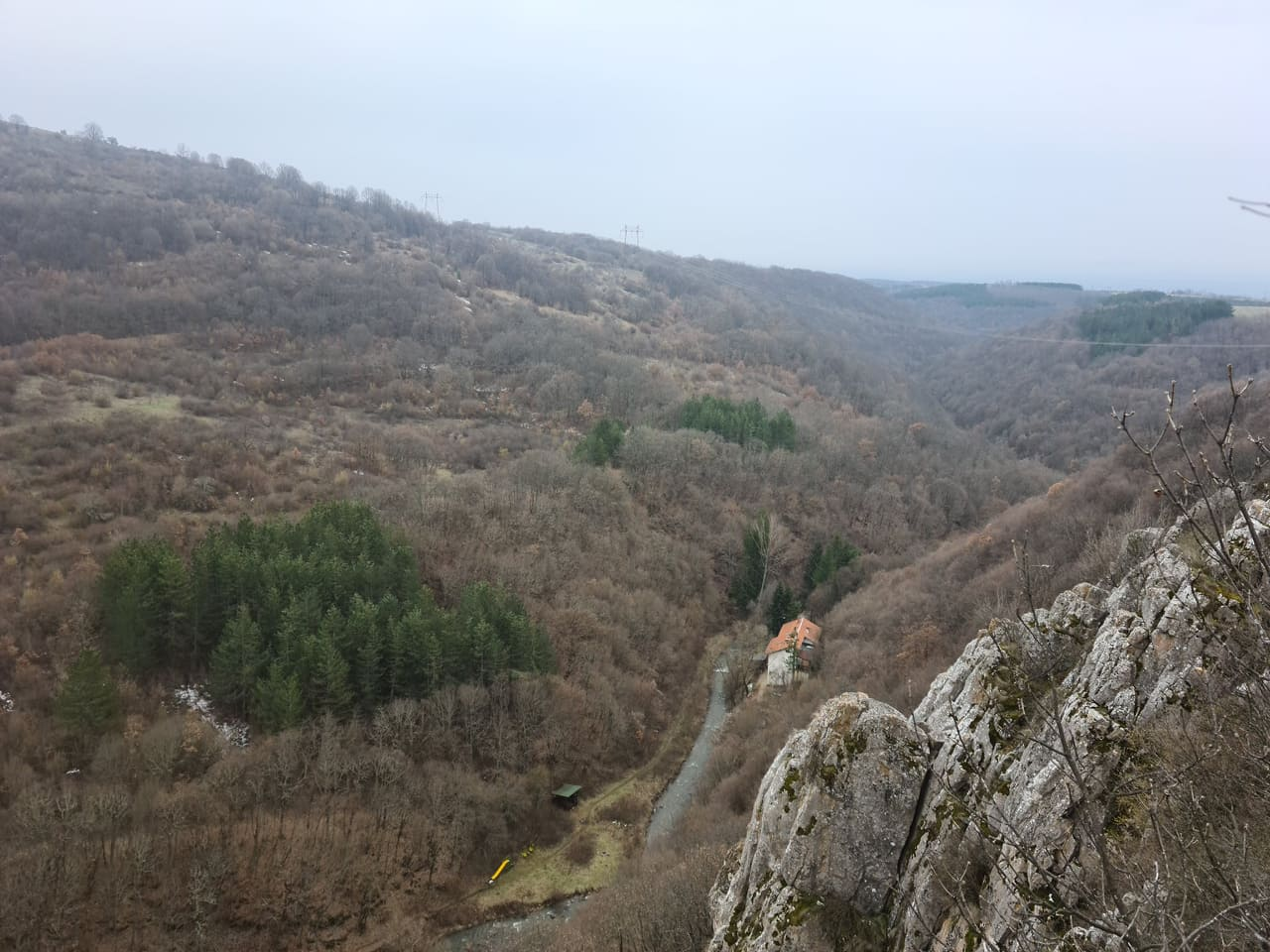 panoramic view